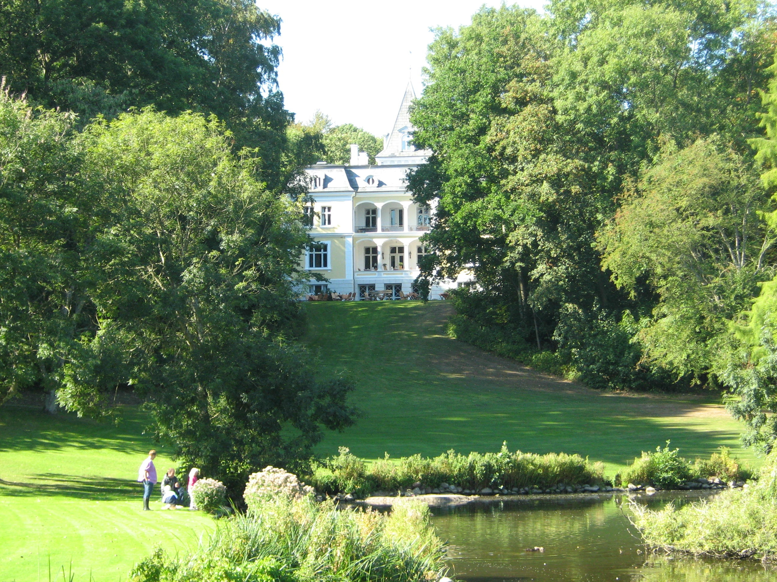 Liselund, Møn, Denmark. Ny Slot or New Palace, built 1887, now a hotel.